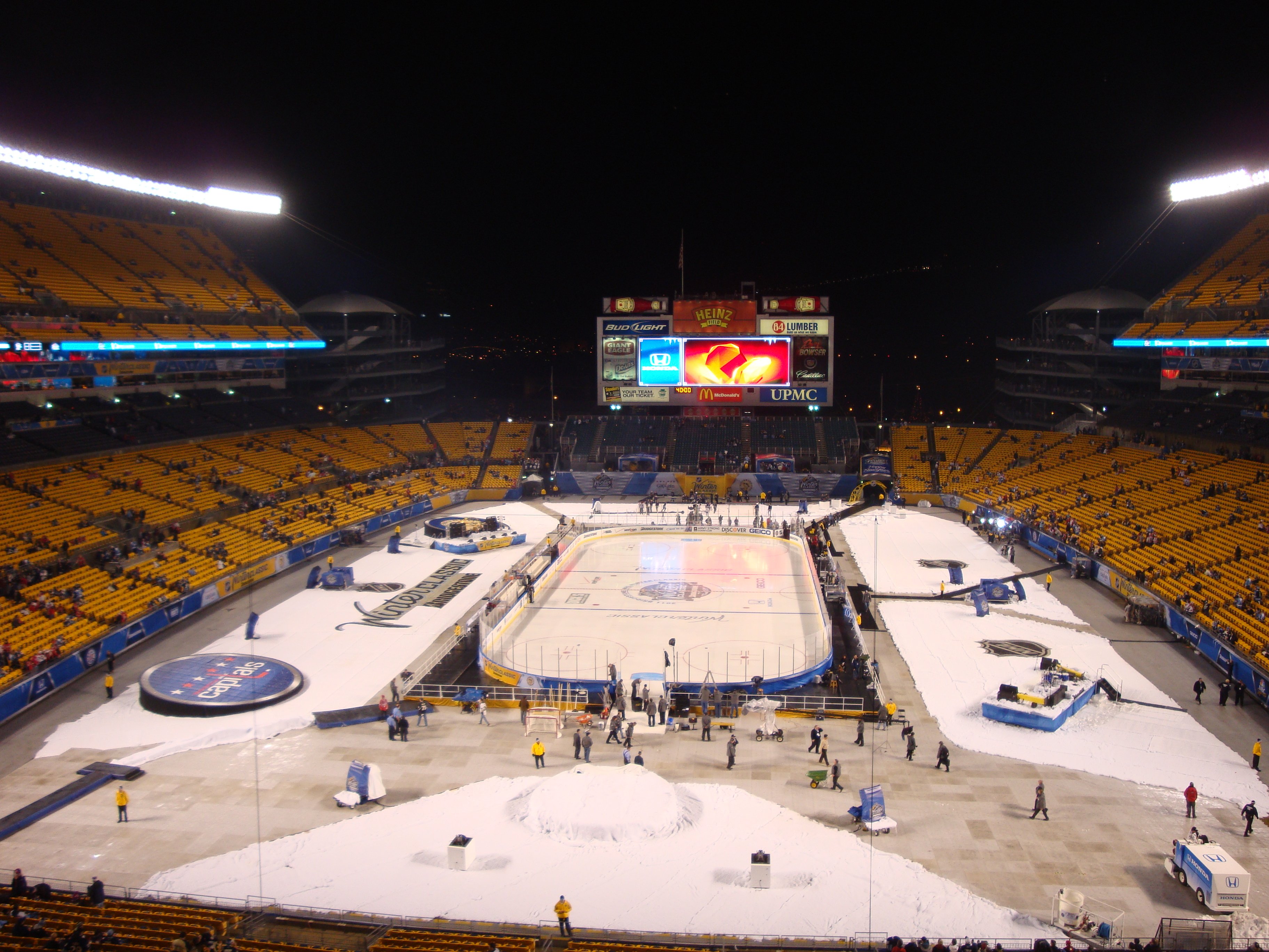 Heinz Field in hockey configuration seen from Section 523 approximately two hours prior to the 2011 NHL Winter Classic, in which the Washington Capitals defeated the Pittsburgh Penguins 3–1.